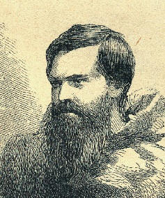 Engraving of the Arctic explorer Charles Francis Hall